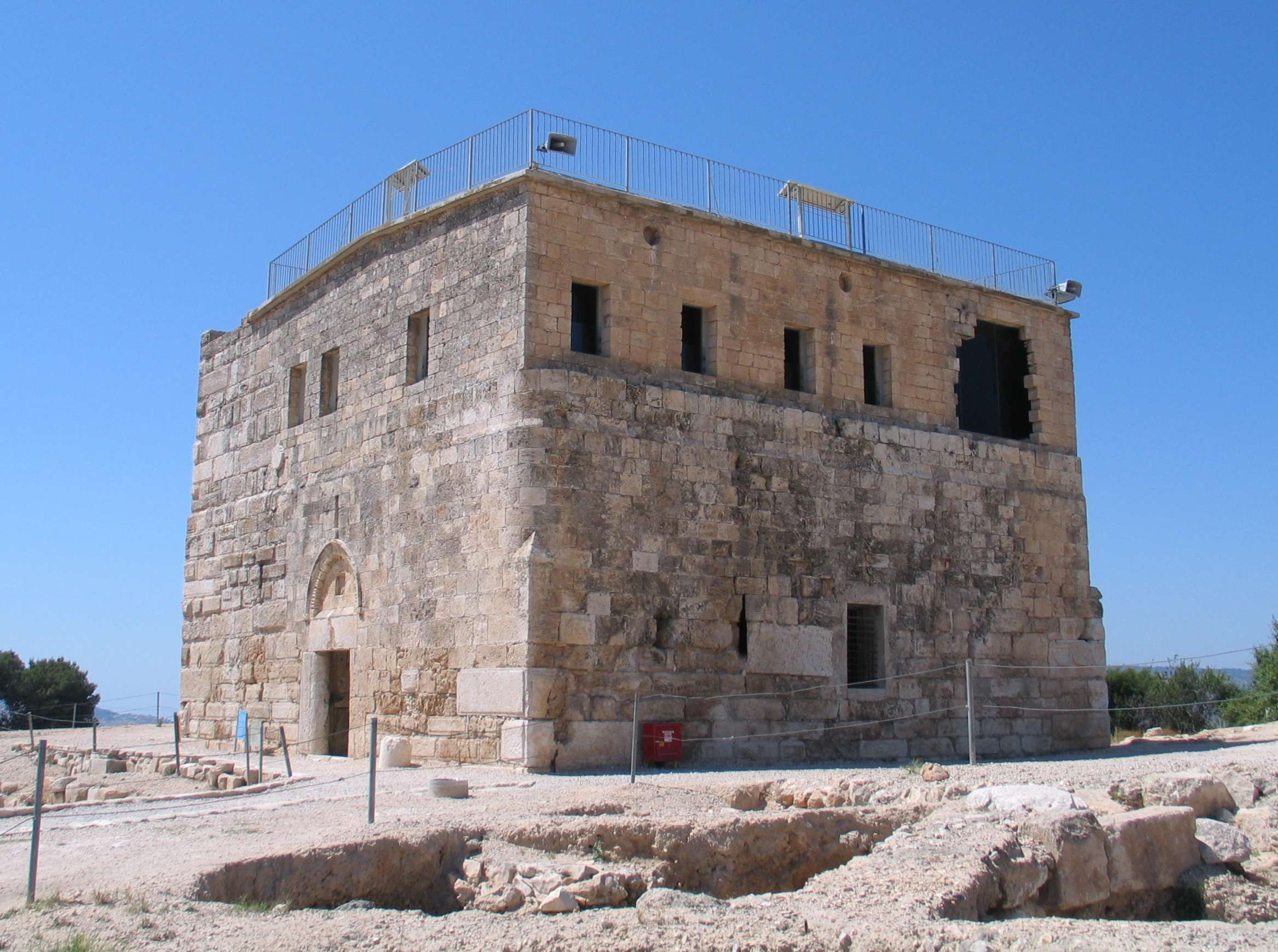 The crusader tower in Tzippori national park, Israel.